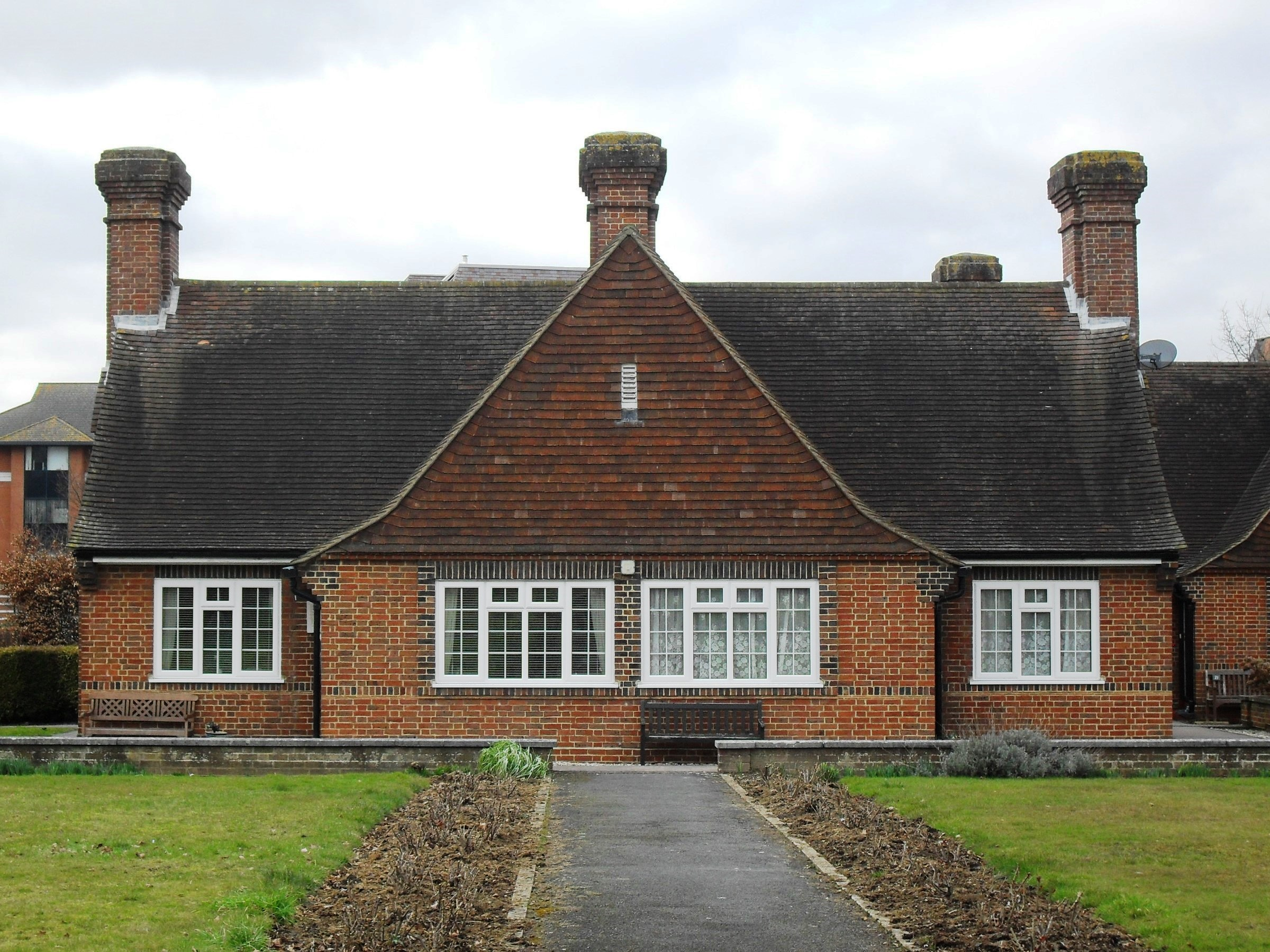 A close-up of one of the Dyers Almshouses, Northgate, Borough of Crawley, West Sussex, England. The almshouses are collectively one of the borough's locally listed buildings.